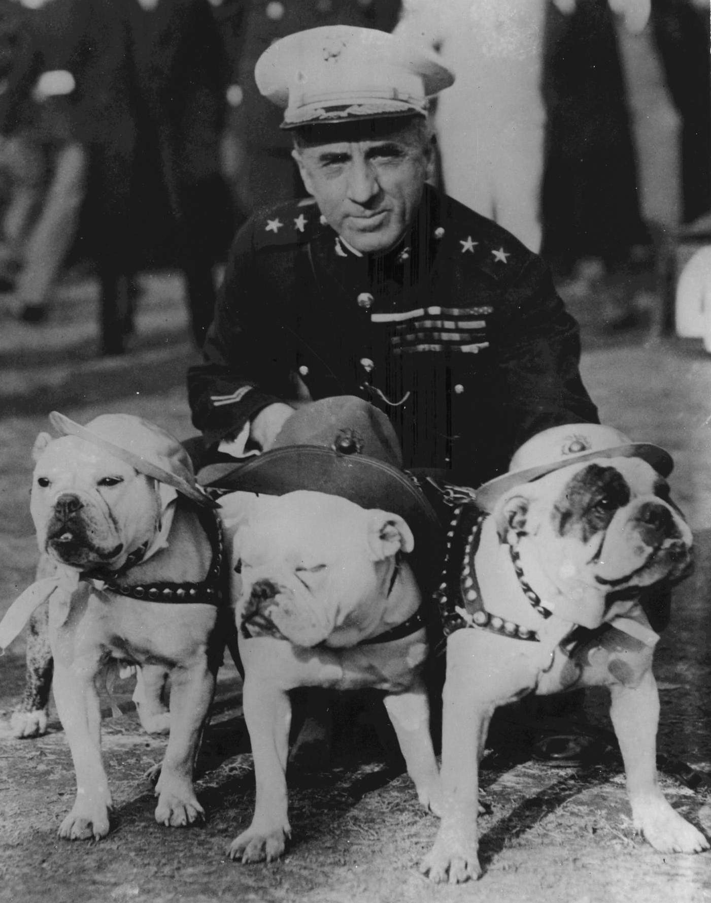 Smedley Butler poses with bulldogs on Armistice Day: Bill, Sergeant Thunder & Jiggs II as they watch the Football game at Franklin Field in Philadelphia between the Quantico Marines & the American Legion All Stars. From the P.J. Woods Collection (COLL/1502), Marine Corps Archives & Special Collections